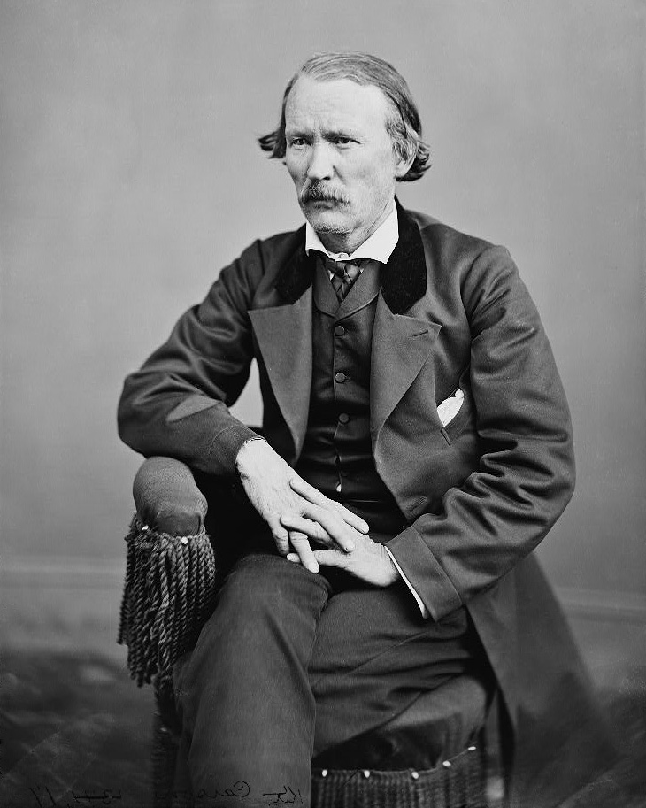 Christopher 'Kit' Carson (1809-1868), American explorer